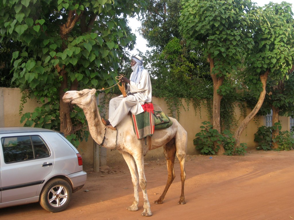 A man rides a camel behind a silver car in Ouagadougou, Burkina Faso.